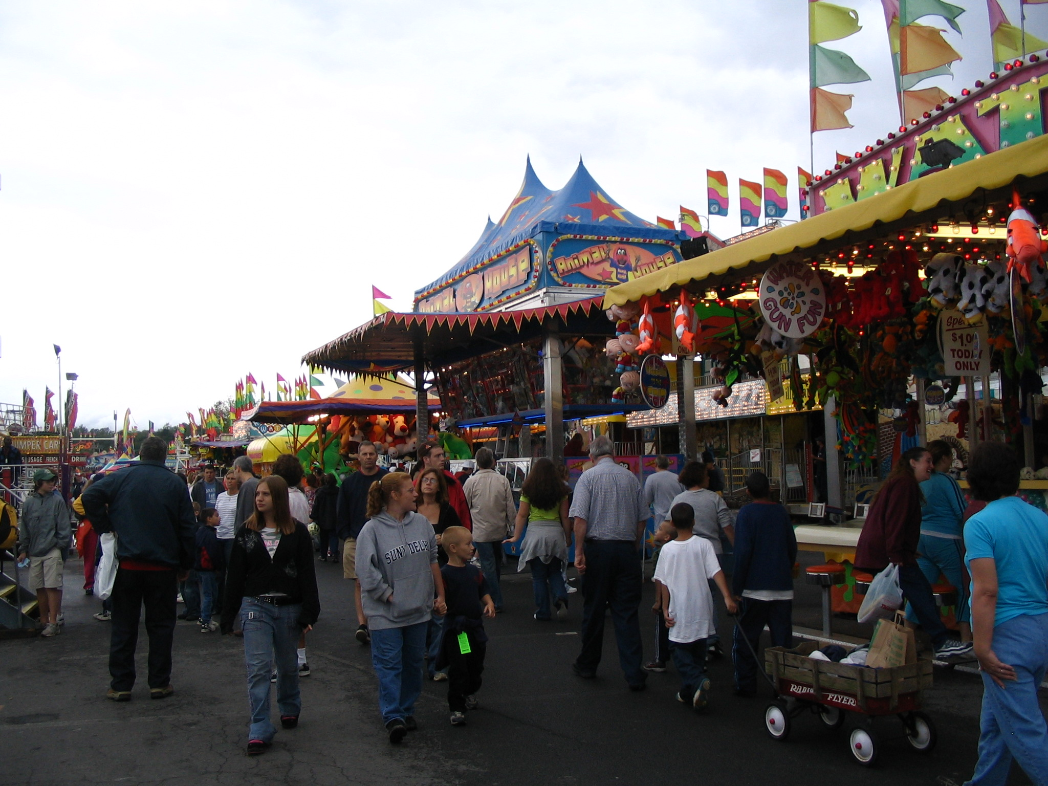 New York State Fair 2006